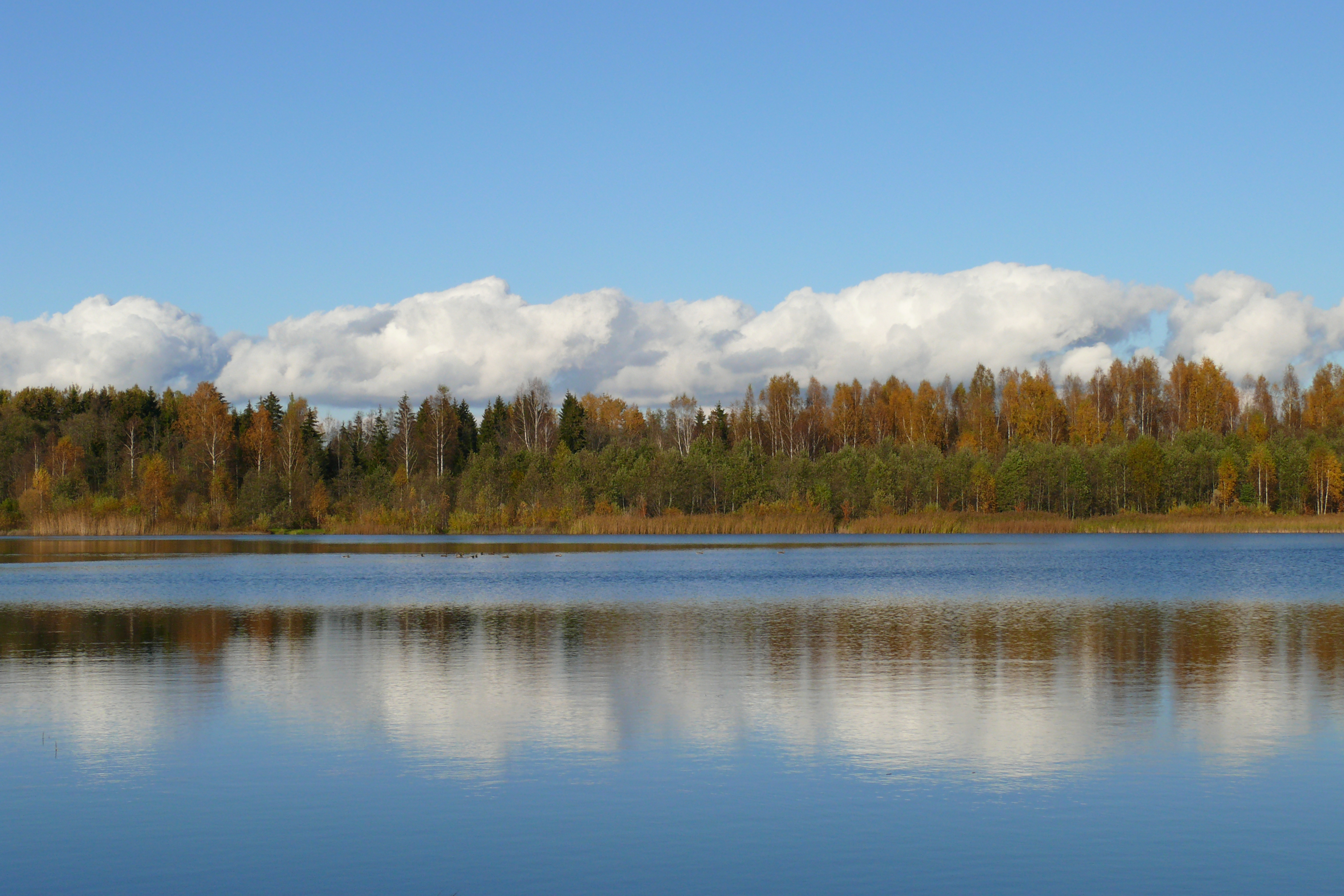 Türi lake in Estonia.